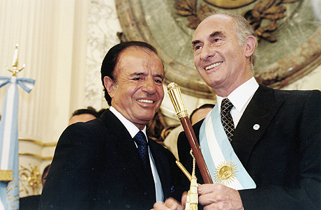 BUENOS AIRES- ASUME COMO PRESIDENTE DE LA NACION, EL DR. FERNANDO DE LA RUA. (SPYD 10-12-99)